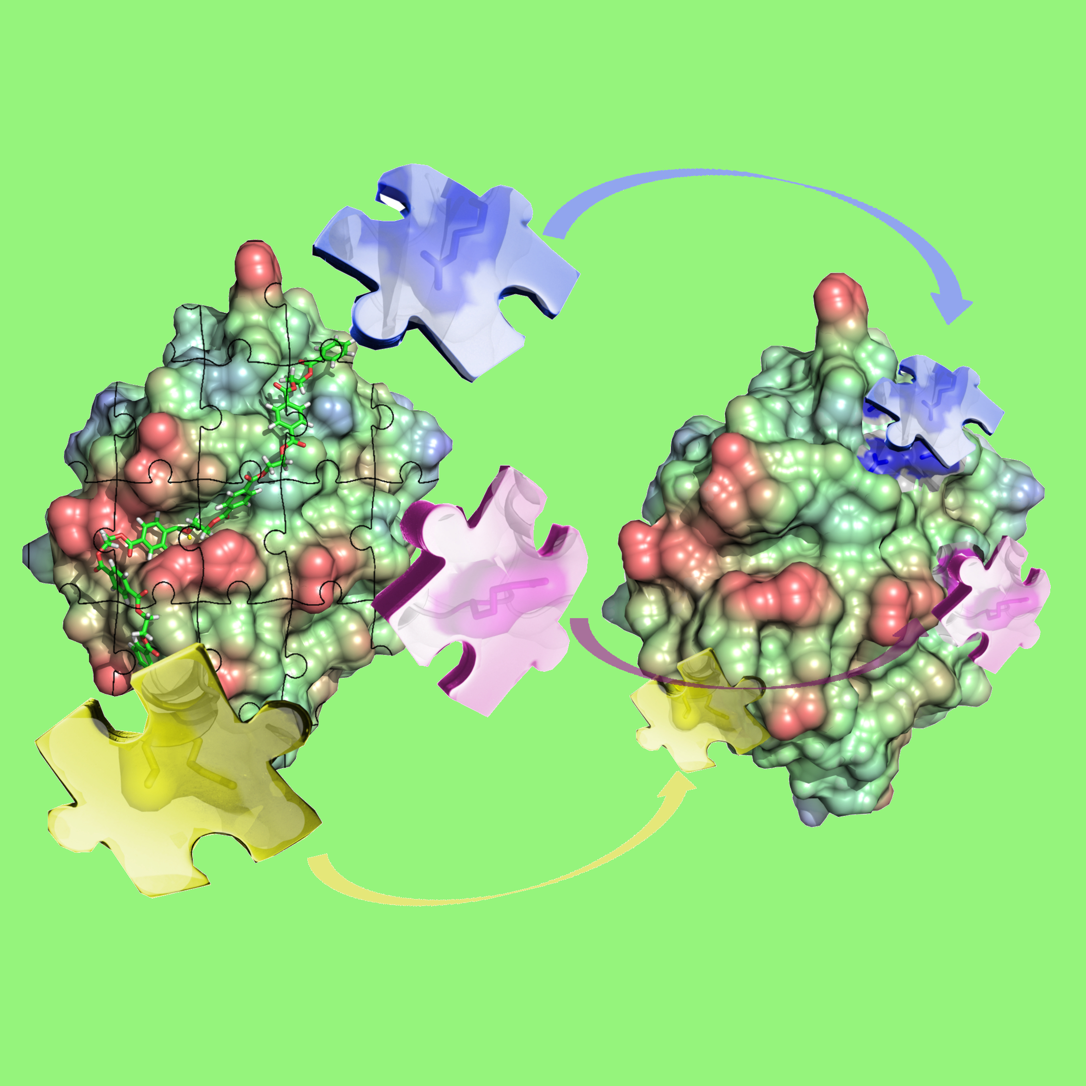 Modeling of genetically engineered enzymes (Cutinases) for enhanced polymere degradation in industrial biotechnology processes.